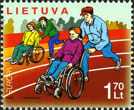 Europa 2006. Integration. Date of issue: 15th April 2006. Designer: H. Ratkevichius Paper: chalky Printing process: offset Perforation: comb 13 1/4 Size of a stamp: 36,50 x 30 mm Size of a Miniature Sheet: 98 x 176 mm Miniature Sheet composition: 10 (2 x 5) stamps Printing run: 200.000 stamps or 20.000 Miniature Sheets Michel catalogue numbers: 902-903 1,70 (L). multicoloured. Sport of the disabled